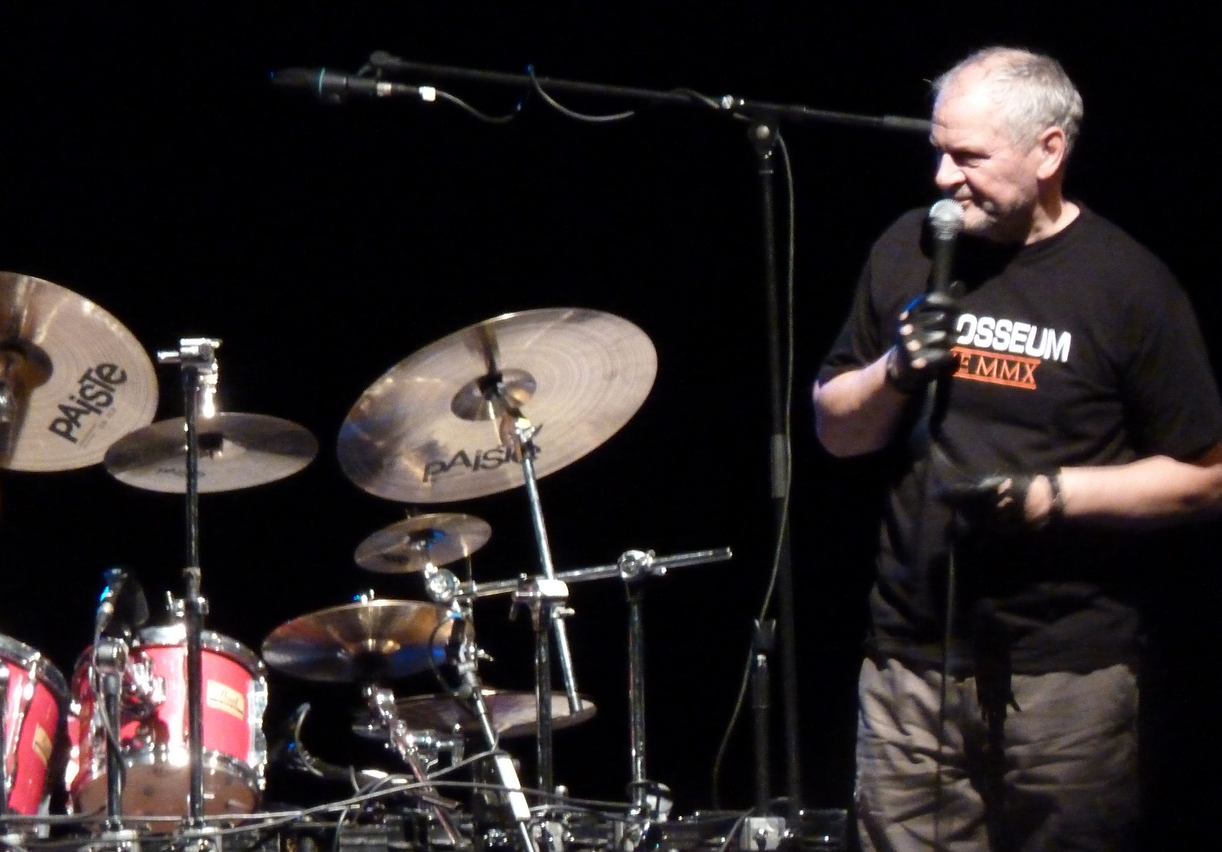 Jon_Hiseman